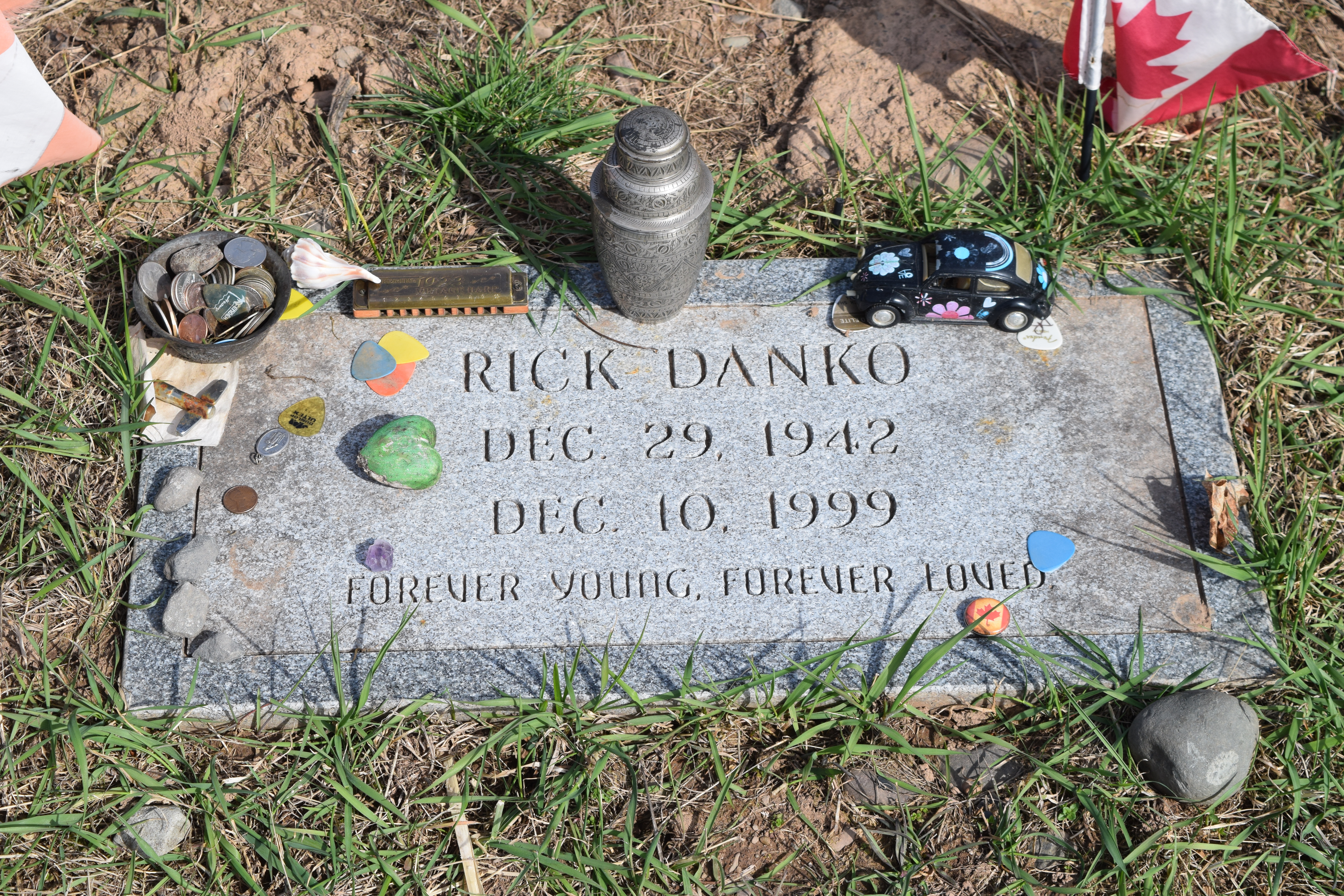 A photograph of musician Rick Danko's grave, taken at the Woodstock Cemetery on April 19, 2015. I figured this was a better photo to use because it was taken in broad daylight.